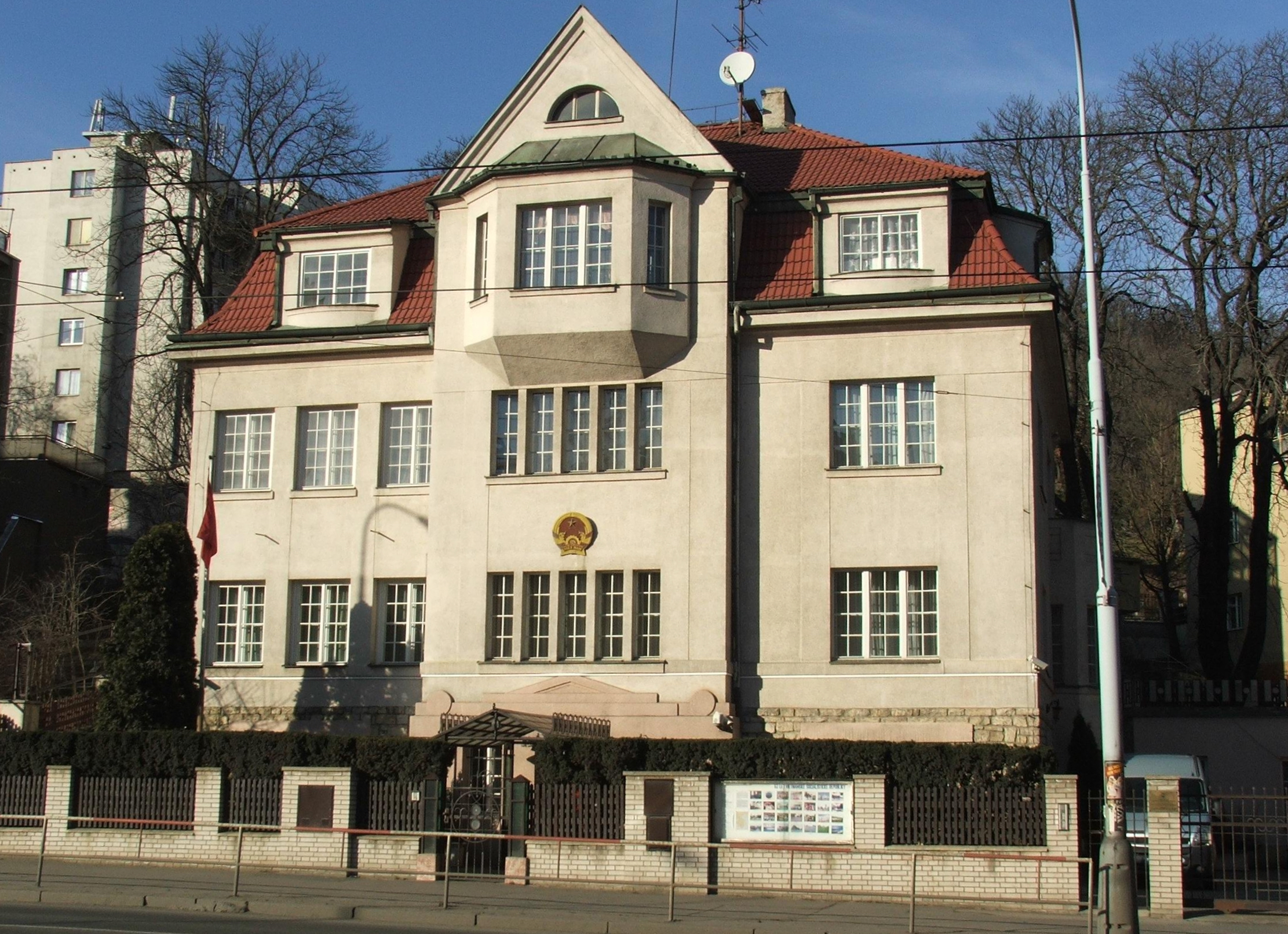 Embassy of Vietnam in Prague 5 - Smíchov, Czechia.